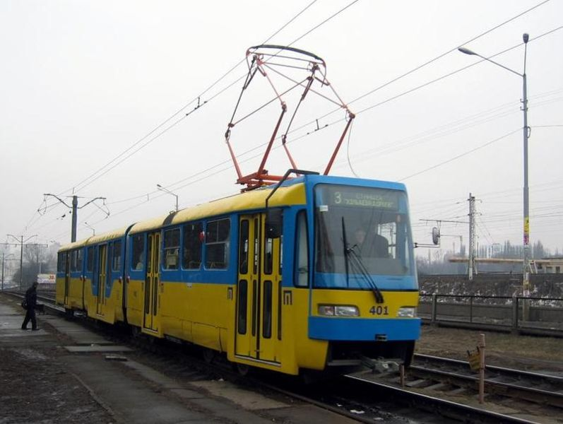 Tram K3R-N in Kyiv, Politechnichna Station